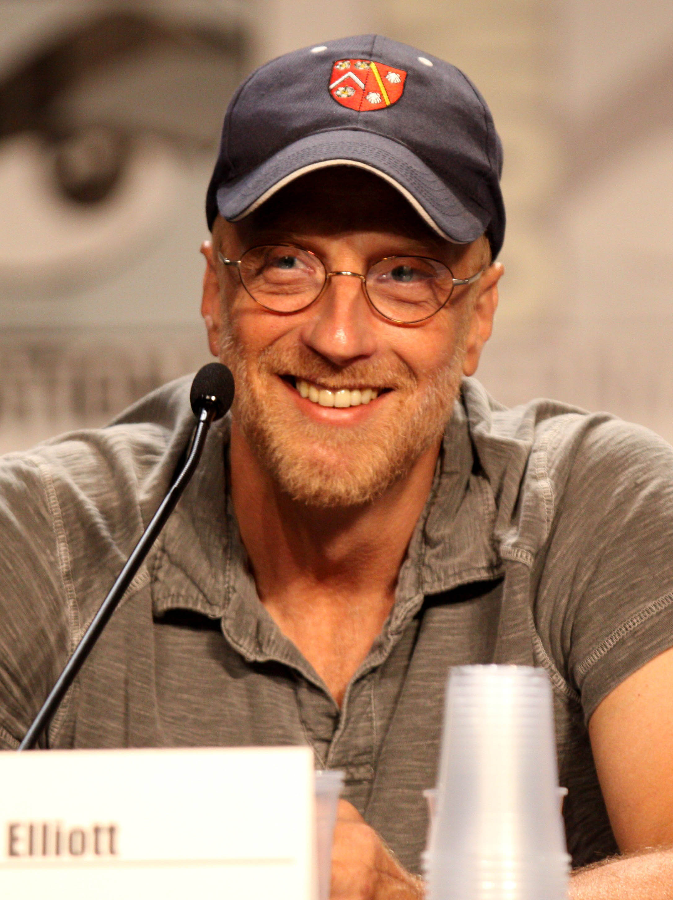 Chris Elliott at the 2011 Comic Con in San Diego